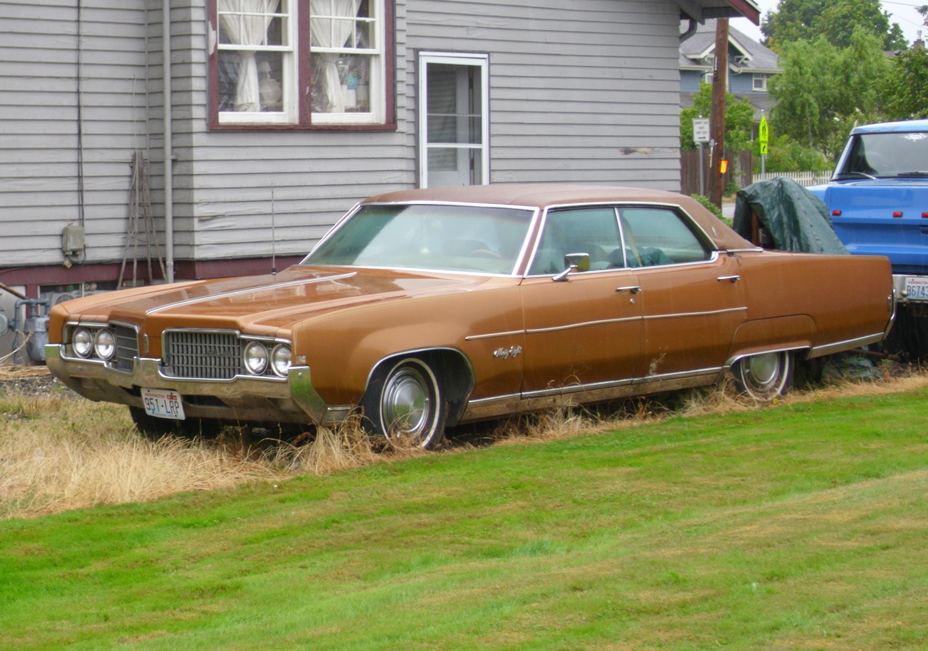 Raining a bit today, so not a long walk, but I did many alleys in the neighborhood to see what lurks in the back yards.